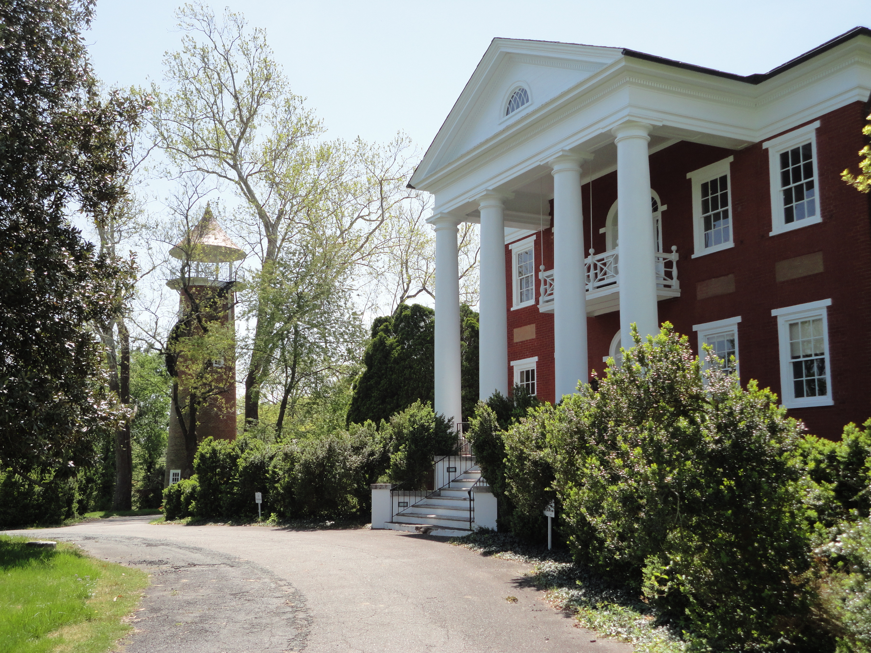 Birdwood Mansion built 1819-1830 now on the grounds of the University of Virginia's Birdwood Golf Course.